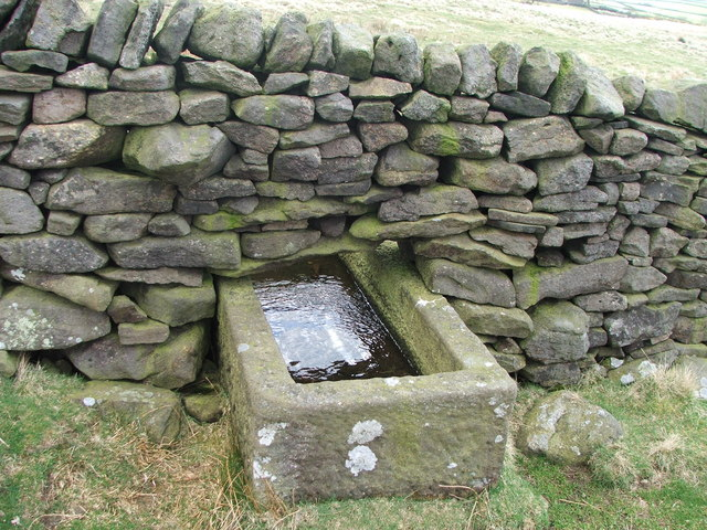 Stone trough in wall. Cunningly built through the wall in order that animals on either side can benefit from it.